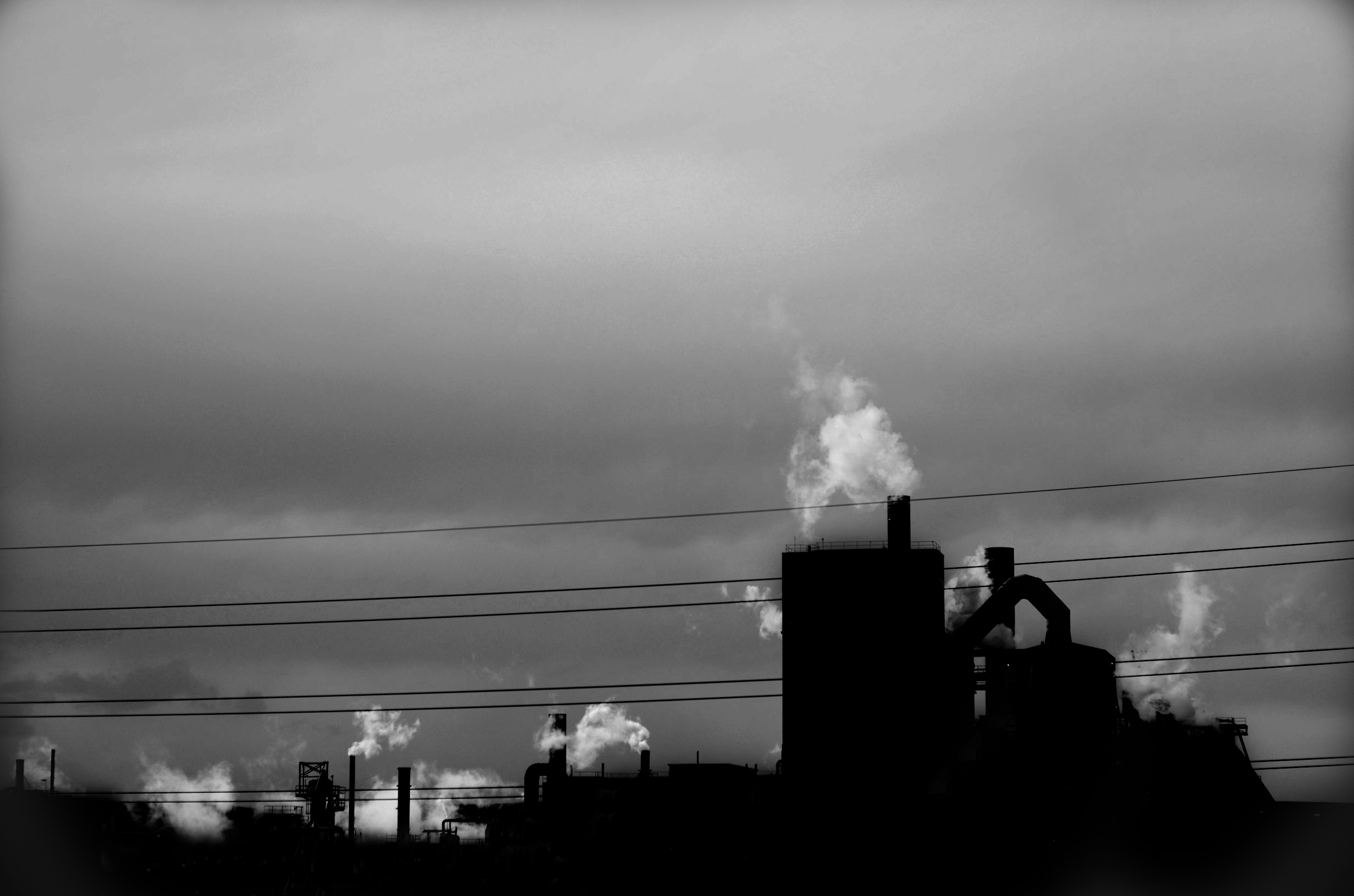 A tribute to the video game Limbo. The user description reads: "I've been trying to branch out a little into nontraditional photography in the last few weeks, and it's been fun. I chose to model this photo after a game I played a few months ago titled 'Limbo' ( The industrial theme fits with certain portions of the game, along with the overall gloomy feel that the factory gave me. No flash or tripod, taken from the passenger seat, somewhere between Walla Walla and Spokane. Editing was the fun bit. I started with some very heavy levels - the sky was already grey, and the smoke was a pure white, so I had a lot of flexibility in how dark I could make the buildings. After making the buildings a nice black, I used some cloning to stamp out random points of light on the buildings. Still using the clone tool, I used the feathered edges to make the diffused smudges visible around the top and side of the factory. After, I made another layer, and applied a vignette. I erased everything but the edges. Finally, I looked around Photoshop's filters for the first time. They had a grain filter that I thought would go nicely with the shot. Nontraditional Digital - f3.2 - 1/6000 - 160 - 50mm".